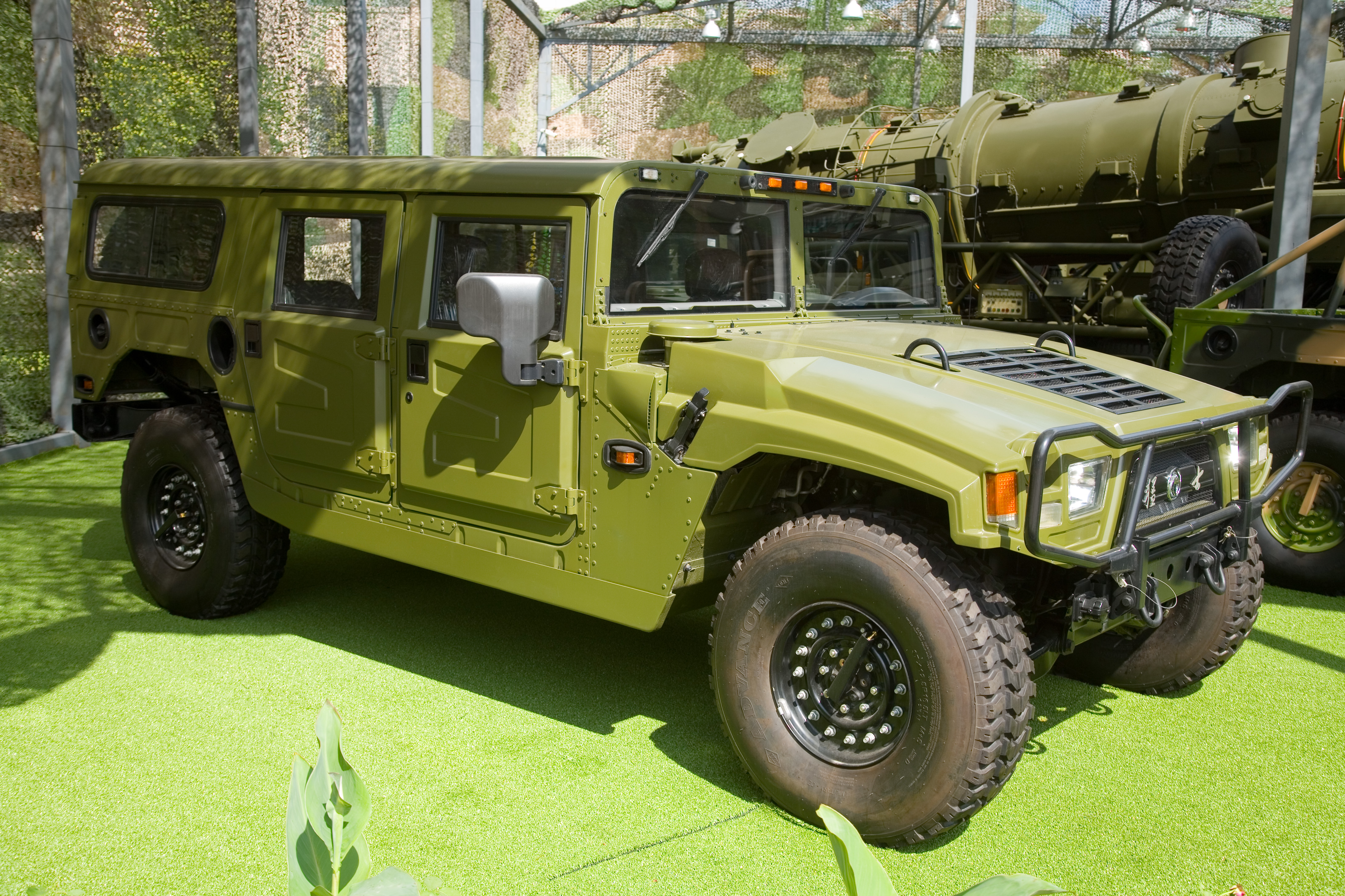 A Eastwind EQ2050 vehicle at the Beijing military museum during the "Our troops towards the sky" exhibition.